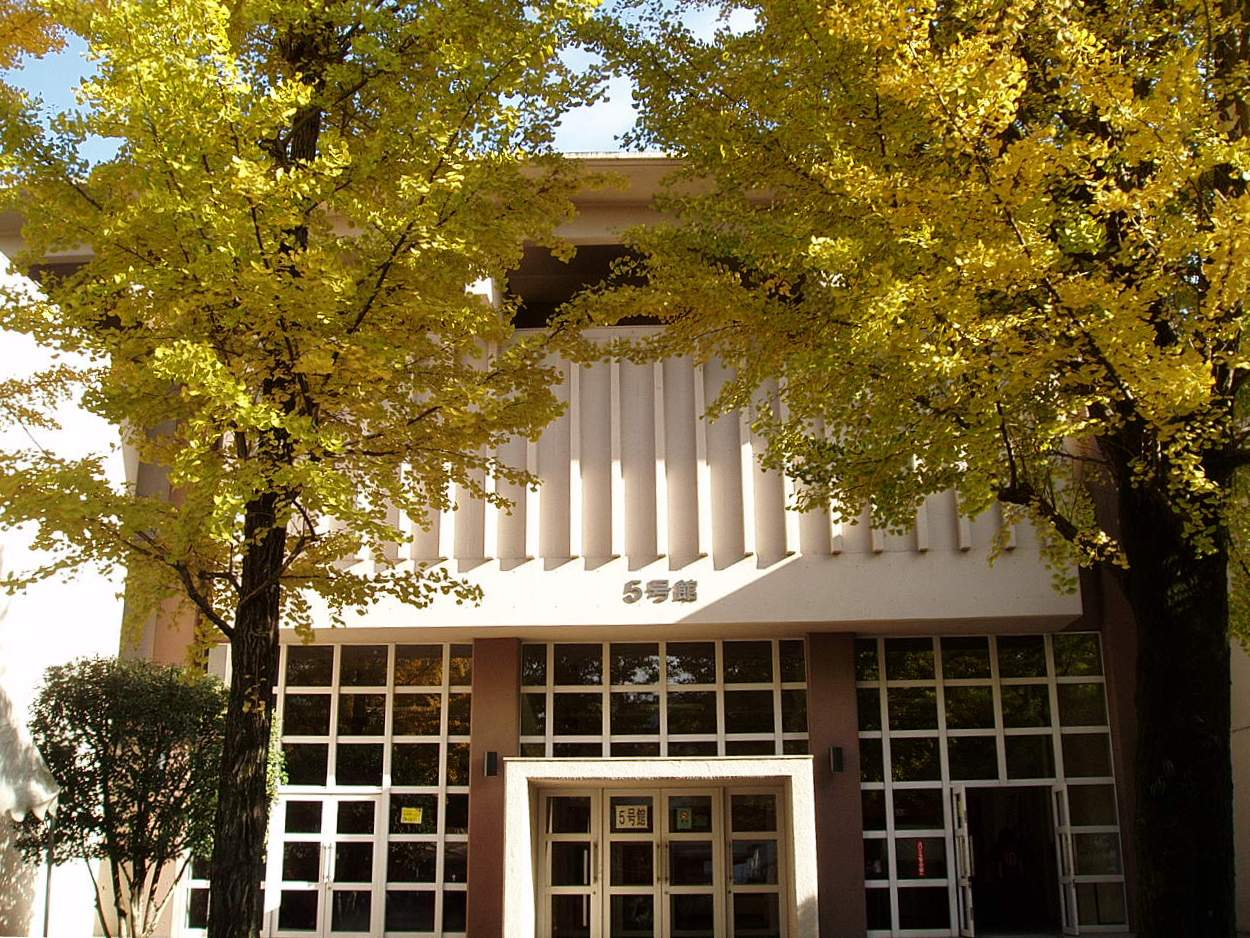 Building #5 of Takasaki City Universit of Economics, located in Takasaki, Gunma, Japan.